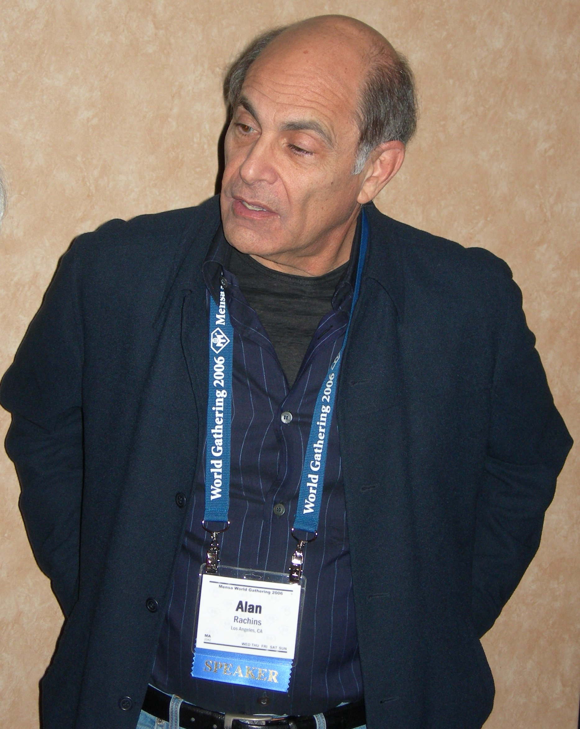 Picture of actor Alan Rachins taken at 2006 Mensa World Gathering at Walt Disney World. Taken by uploader, Daniel R. Tobias.